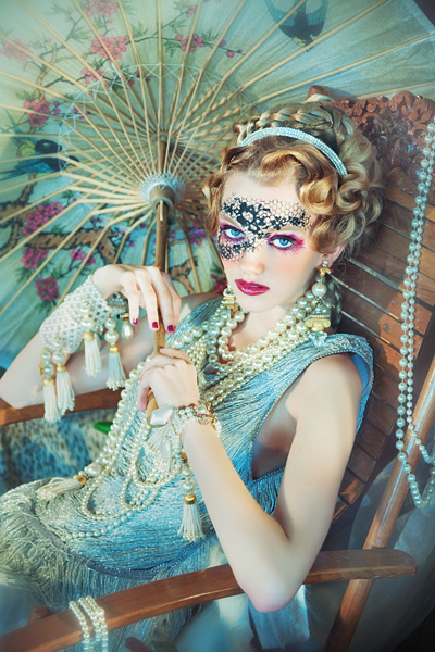 Lace and Time I